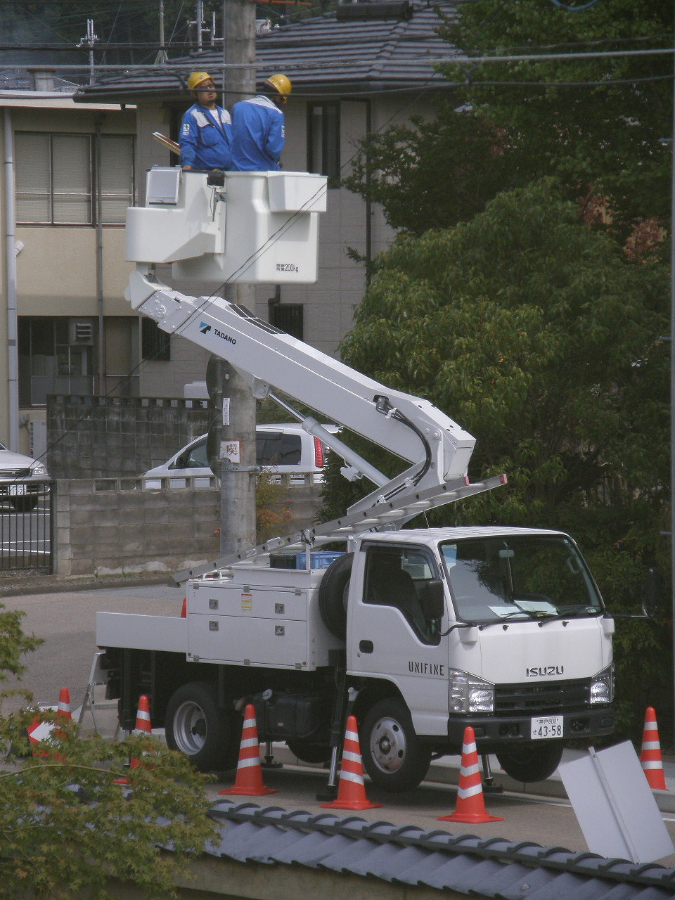 TADANO-SKYBOY,タダノ製 高所作業車 「スカイボーイ」,いすゞエルフ ＮＫＲ